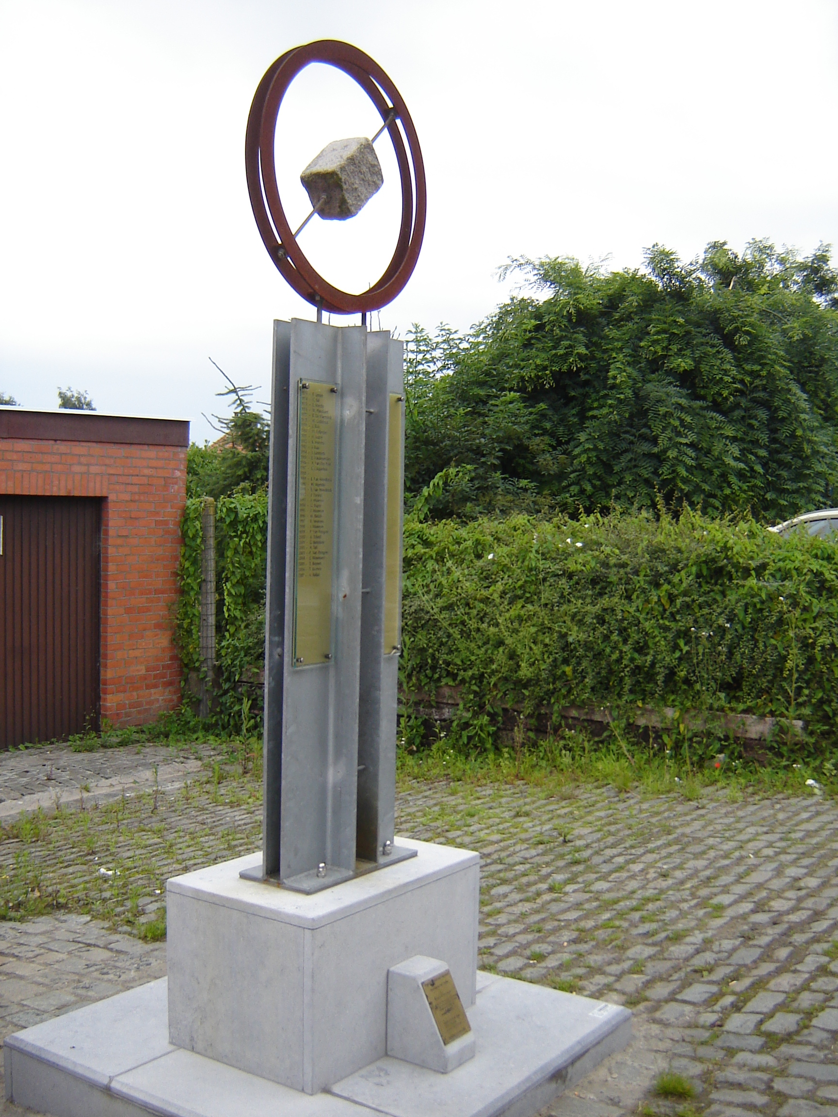 Monument for the "Ronde van Vlaanderen" (Tour of Flanders) cycling race in the Paddestraat street in Velzeke-Ruddershove. Velzeke-Ruddershove, Zottegem, East Flanders, Belgium.